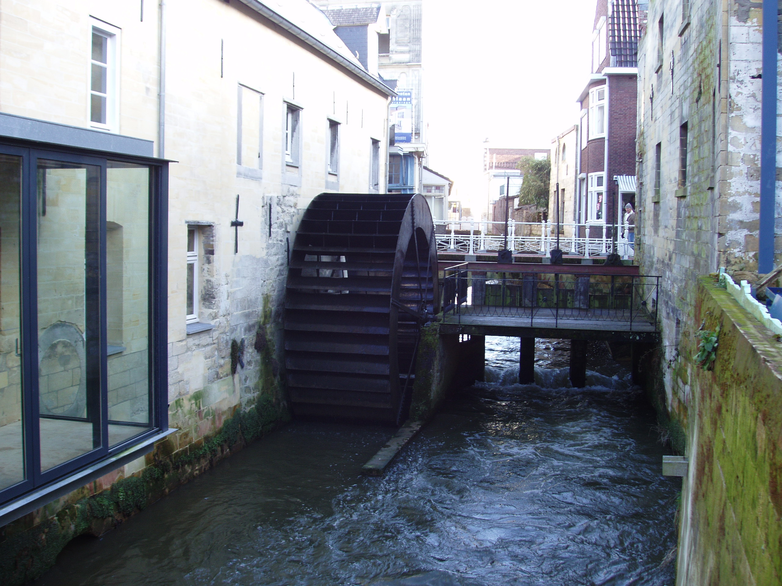 Franse Molen, Valkenburg, Watermill, Limburg, Netherlands